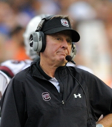 University of South Carolina head football coach Steve Spurrier stands on the sidelines during the Gamecocks' 2008 season game against the Florida Gators in Ben Hill Griffin, Jr. Stadium in Gainesville, Fla., on Nov. 15, 2008.